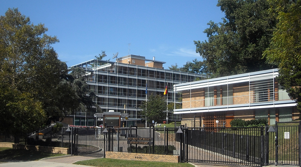 Embassy of Germany at 4645 Reservoir Road, NW in Washington, D.C.